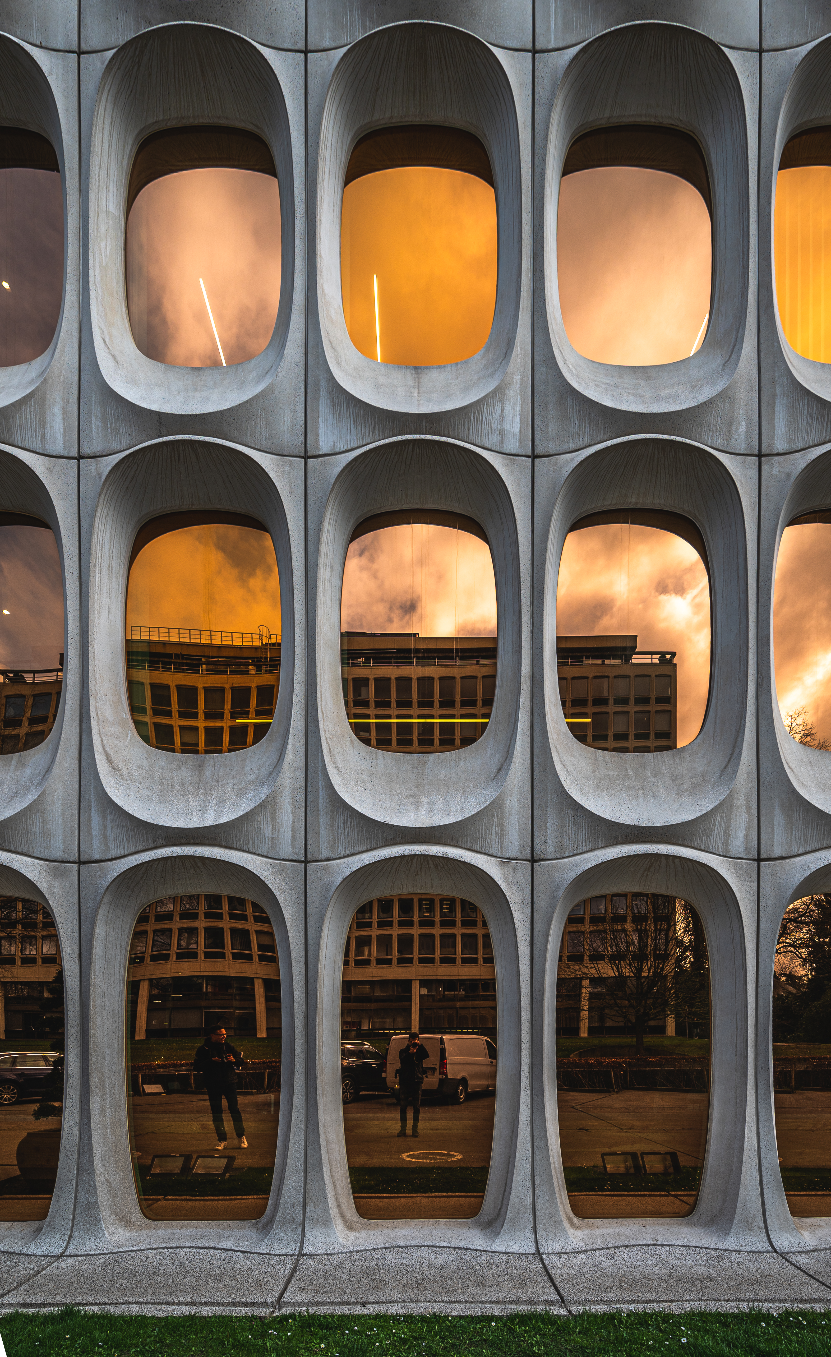 The white prefabricated concrete facade of the CBR Building